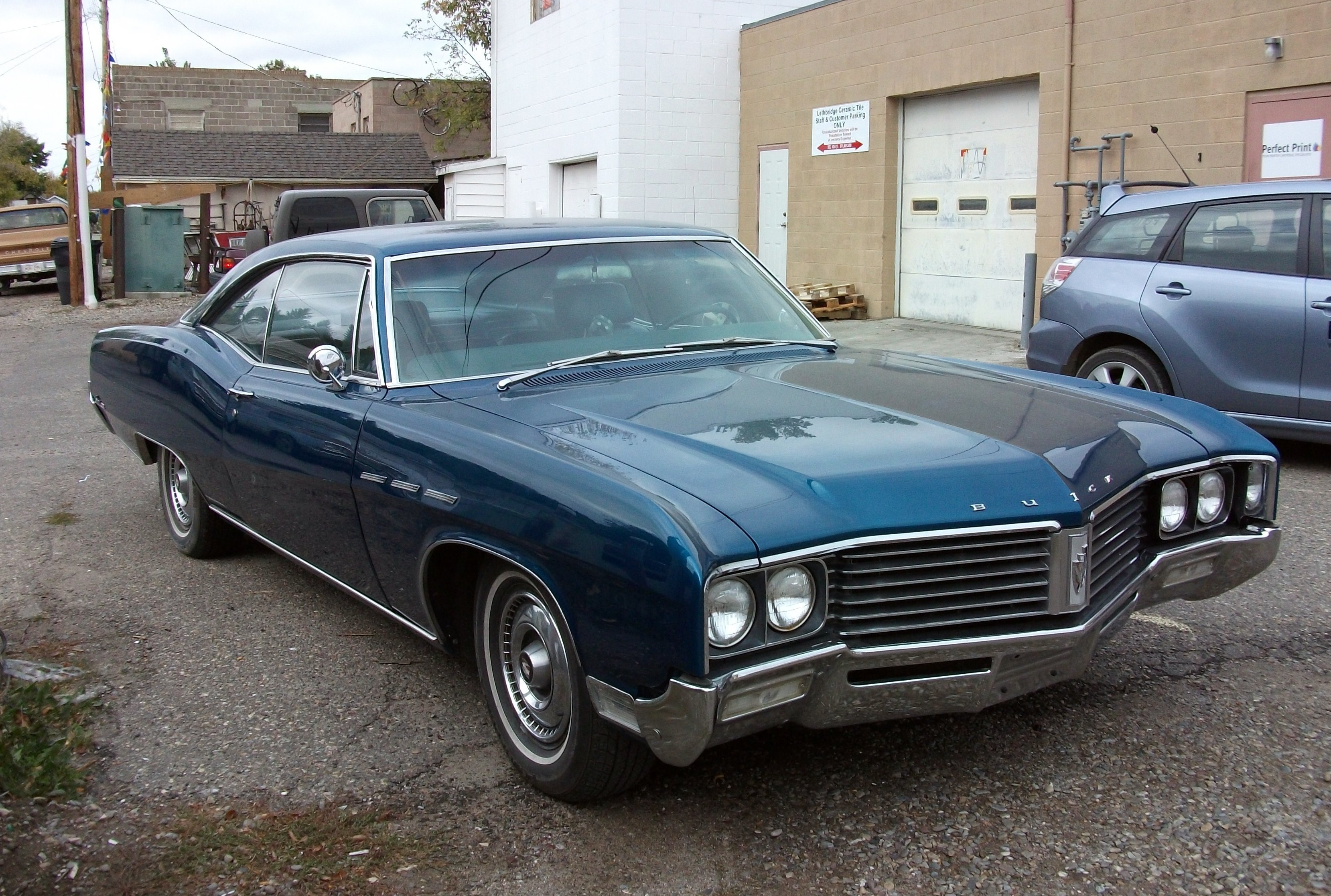 1967 Buick LeSabre hard top